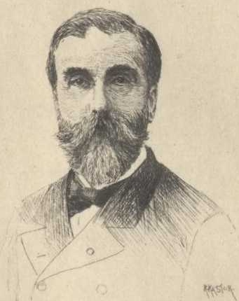 Sketch of French writer and playwright Ludovic Halévy (1834-1908)